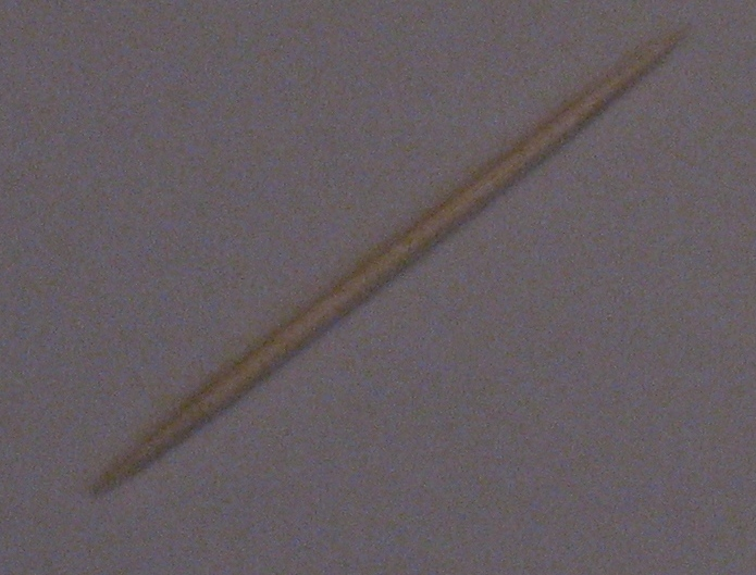 A toothpick (Zahnstocher)